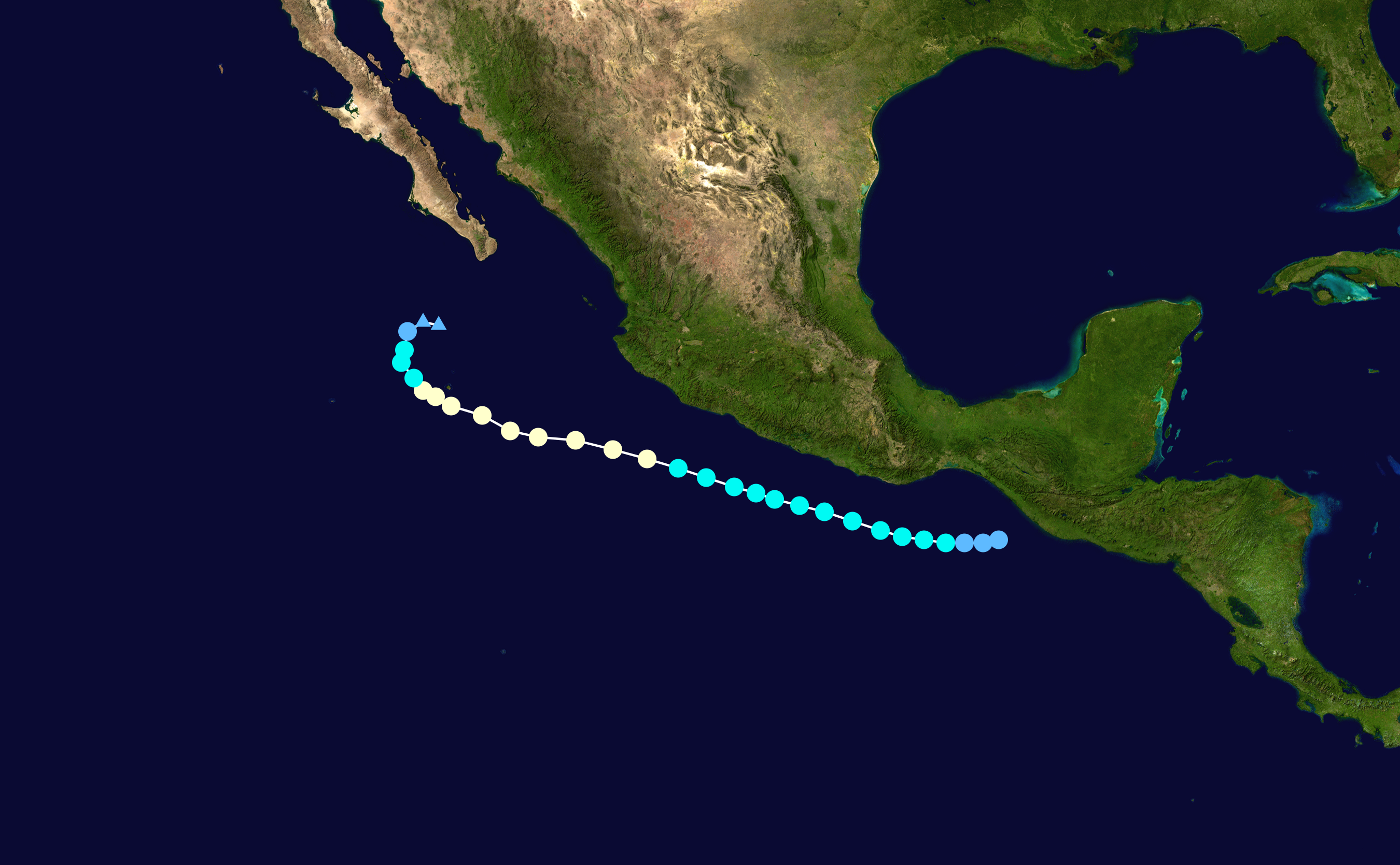 Track map of Hurricane Frank of the 2010 Pacific hurricane season. The points show the location of the storm at 6-hour intervals. The colour represents the storm's maximum sustained wind speeds as classified in the Saffir–Simpson scale (see below), and the shape of the data points represent the nature of the storm, according to the legend below. Saffir–Simpson scale Tropical depression≤38 mph≤62 km/h Category 3111–129 mph178–208 km/h Tropical storm39–73 mph63–118 km/h Category 4130–156 mph209–251 km/h Category 174–95 mph119–153 km/h Category 5≥157 mph≥252 km/h Category 296–110 mph154–177 km/h Unknown Storm type Tropical cyclone Subtropical cyclone Extratropical cyclone / Remnant low / Tropical disturbance / Monsoon depression